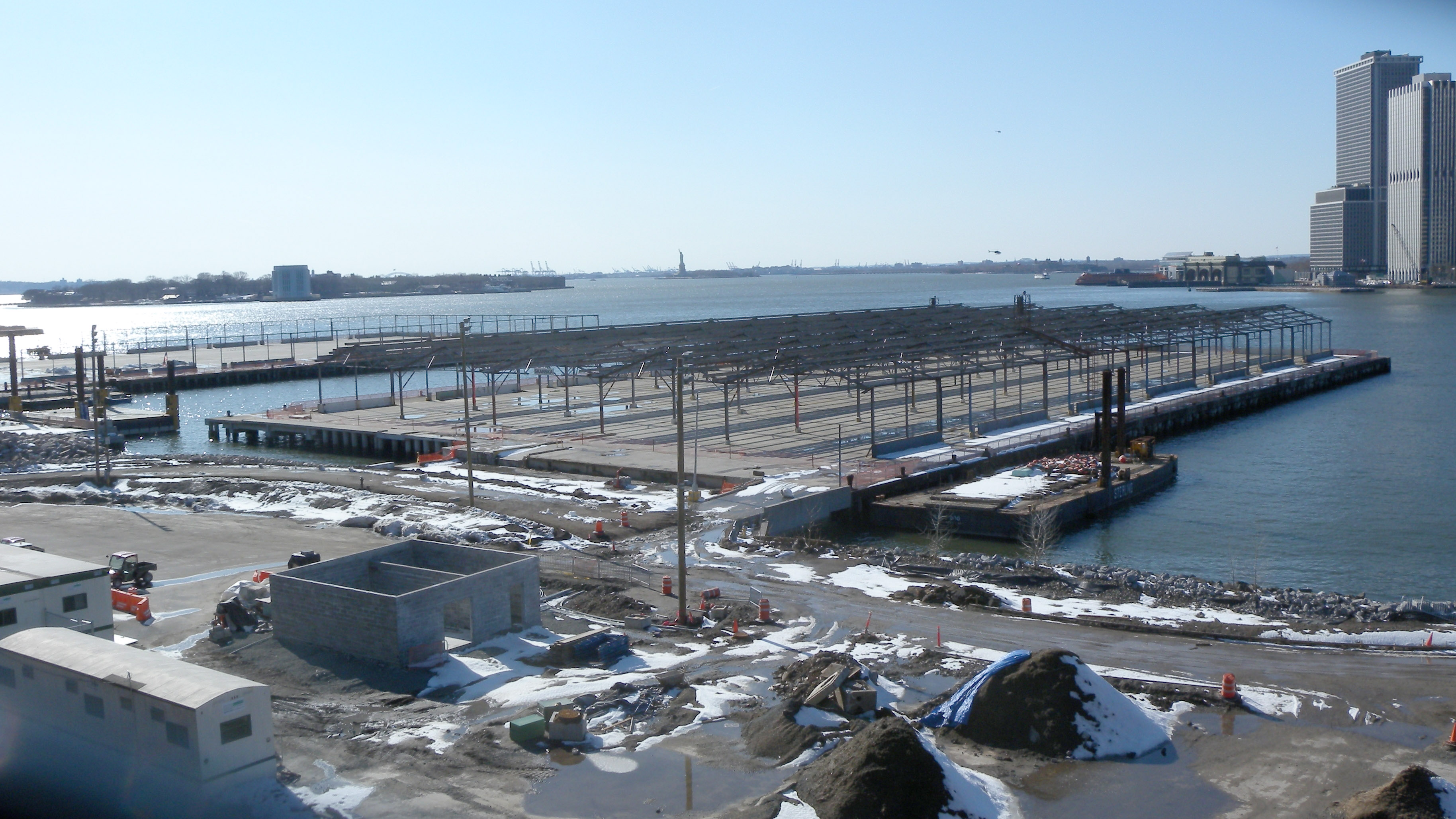 Looking west from Promenade at Pier 5 of Brooklyn Bridge Park, its maritime buildings stripped of their former blue walls, on a sunny afternoon. One New York Plaza background right; Governors Island background left.